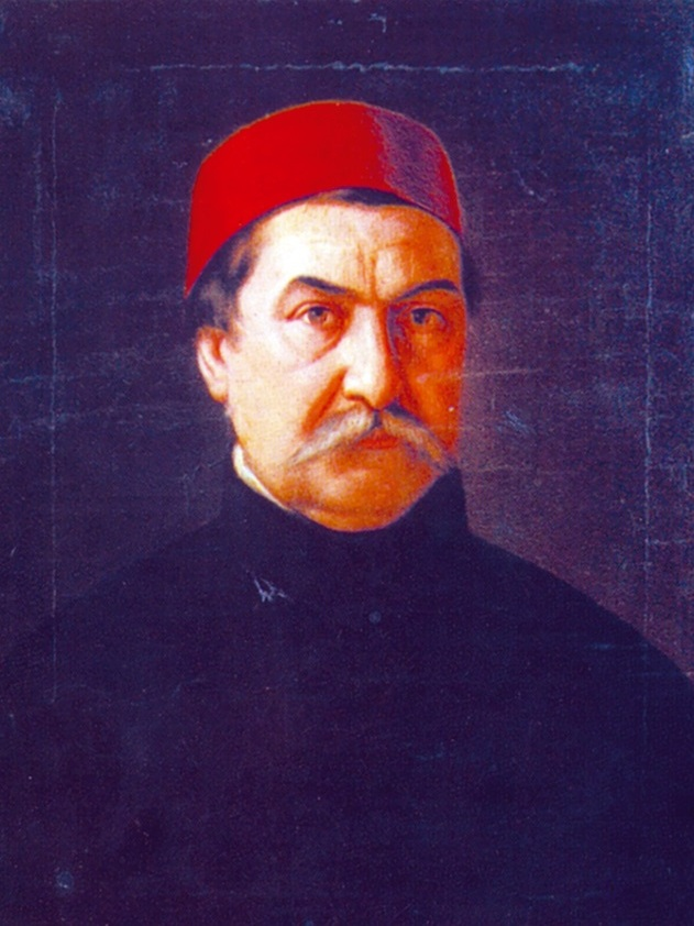 Salcho Chomakov by Stanislav Dospevski, 1857